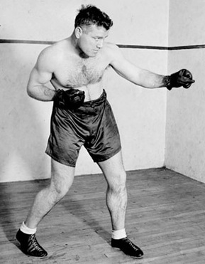 "Full-length portrait of pugilist Tom Heeney standing in profile in a boxing stance in front of a light-colored backdrop."